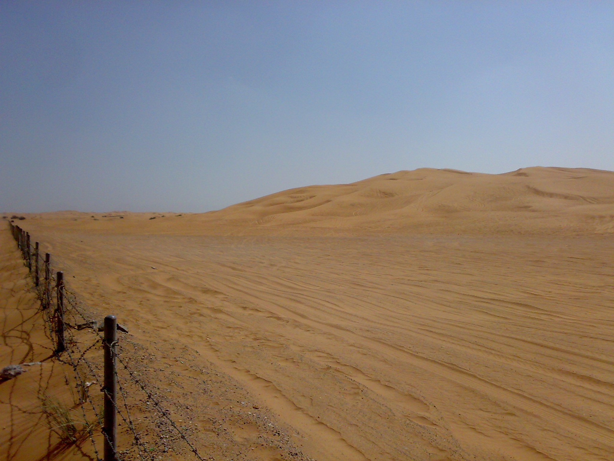 Nazwa sand dunes, highway 44, 65 km east of Dubai, UAE